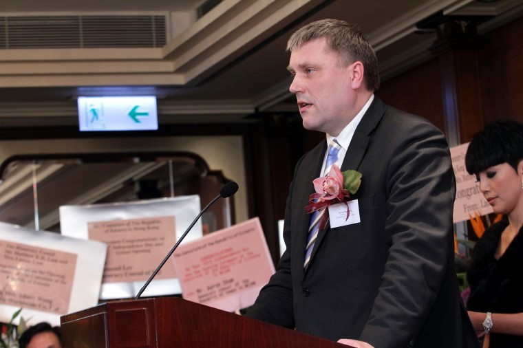 Secretary-General of Estonian Ministry of Foreign Affairs Alar Streimann opening Estonian Honorary Consulate in Hong Kong